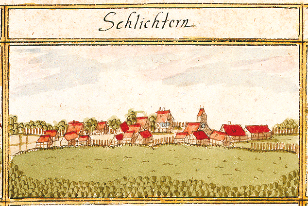 View of Schlichten, Schorndorf, from the forest register books created by Andreas Kieser